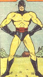 the first incarnation of the Black Hood in Top-Notch Comics #9. October 1940. {